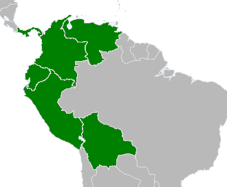 Map with the participating countries of Boivarian Games